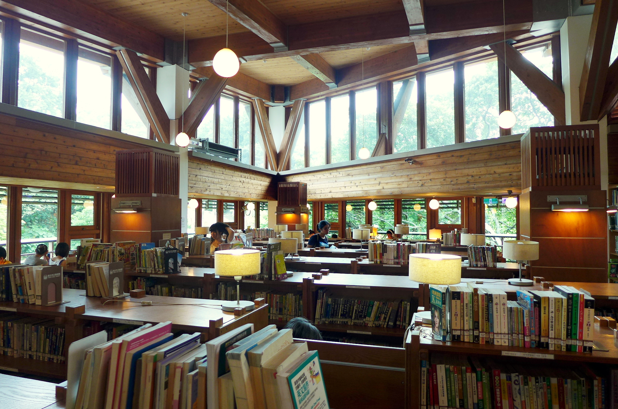 Taipei Public Library Beitou Branch Interior 台北市立圖書館-北投分館